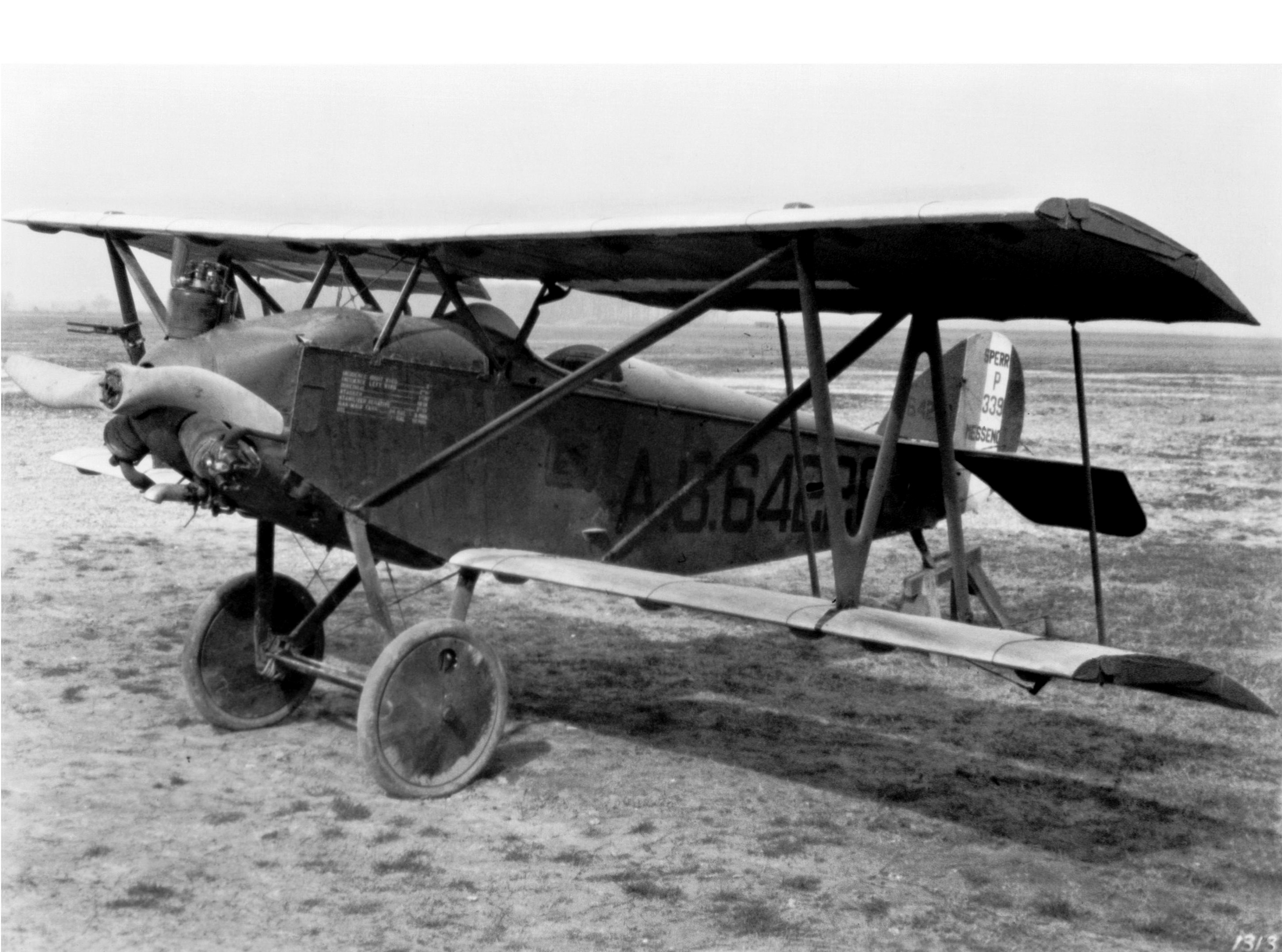 A U.S. Army Air Corps Verville-Sperry M-1 Messenger at the National Advisory Committee for Aeronautics, Langley, Virginia (USA) 15 April 1926: The Army's Sperry M-1 Messenger tested variable-camber wings at Langley in 1926. (Text: NASA)